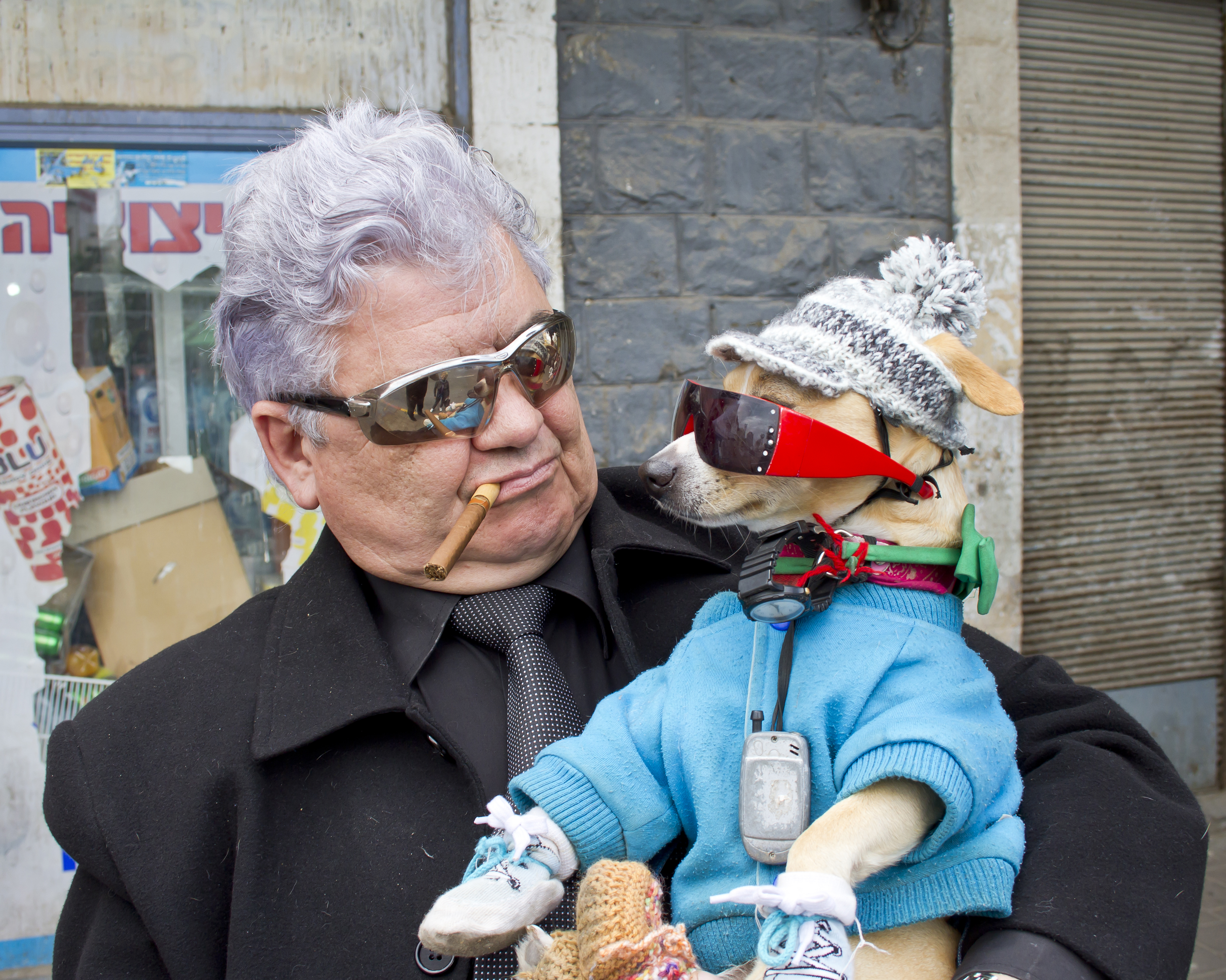 I have taken this picture in the Israel in april 2013.